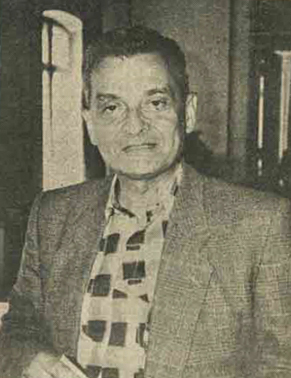 Photo of Romanian dissident and psychiatrist Ion Vianu